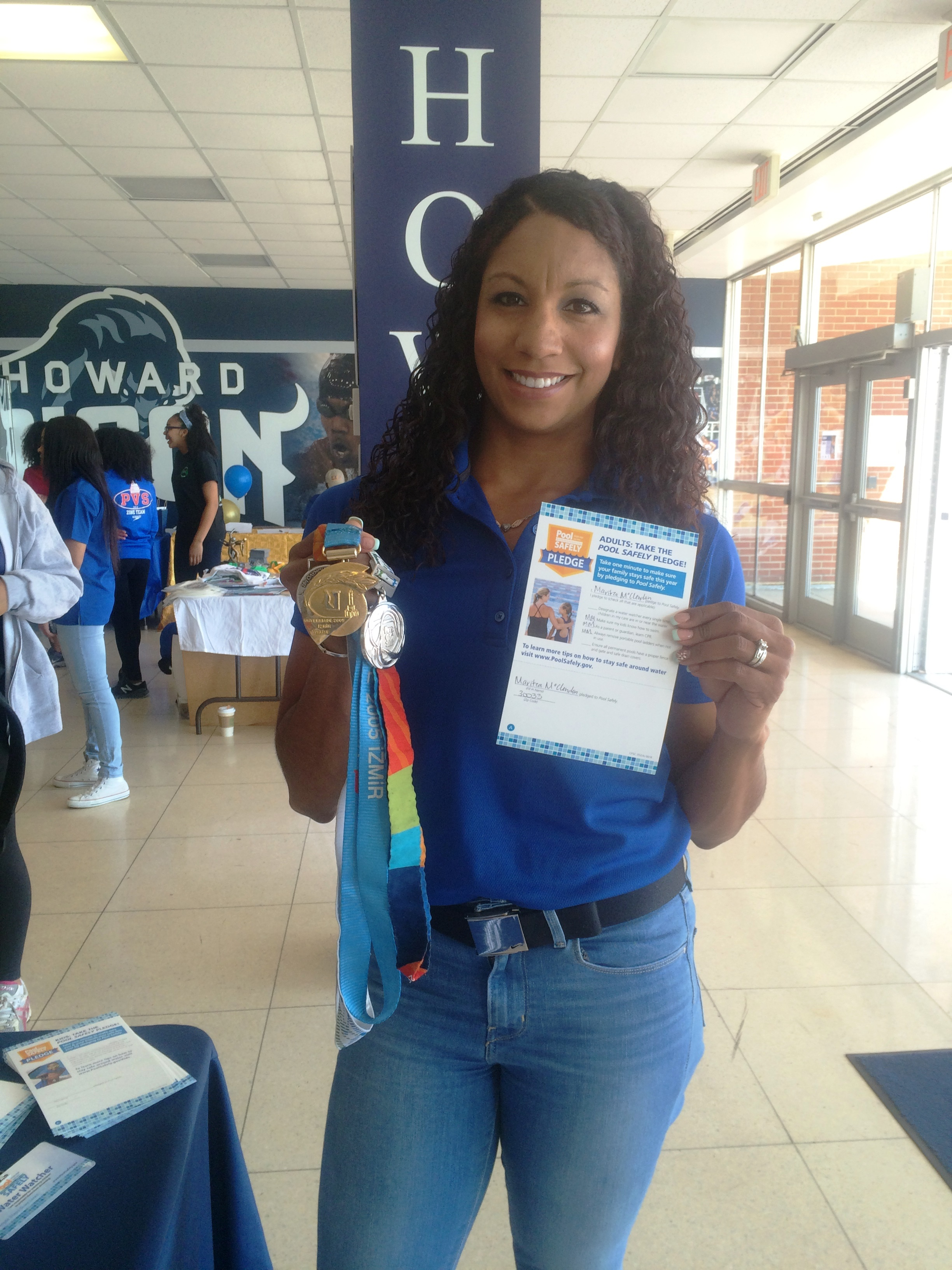 2004 Olympic Silver Medalist Maritza Correia takes the Pledge to Pool Safely.